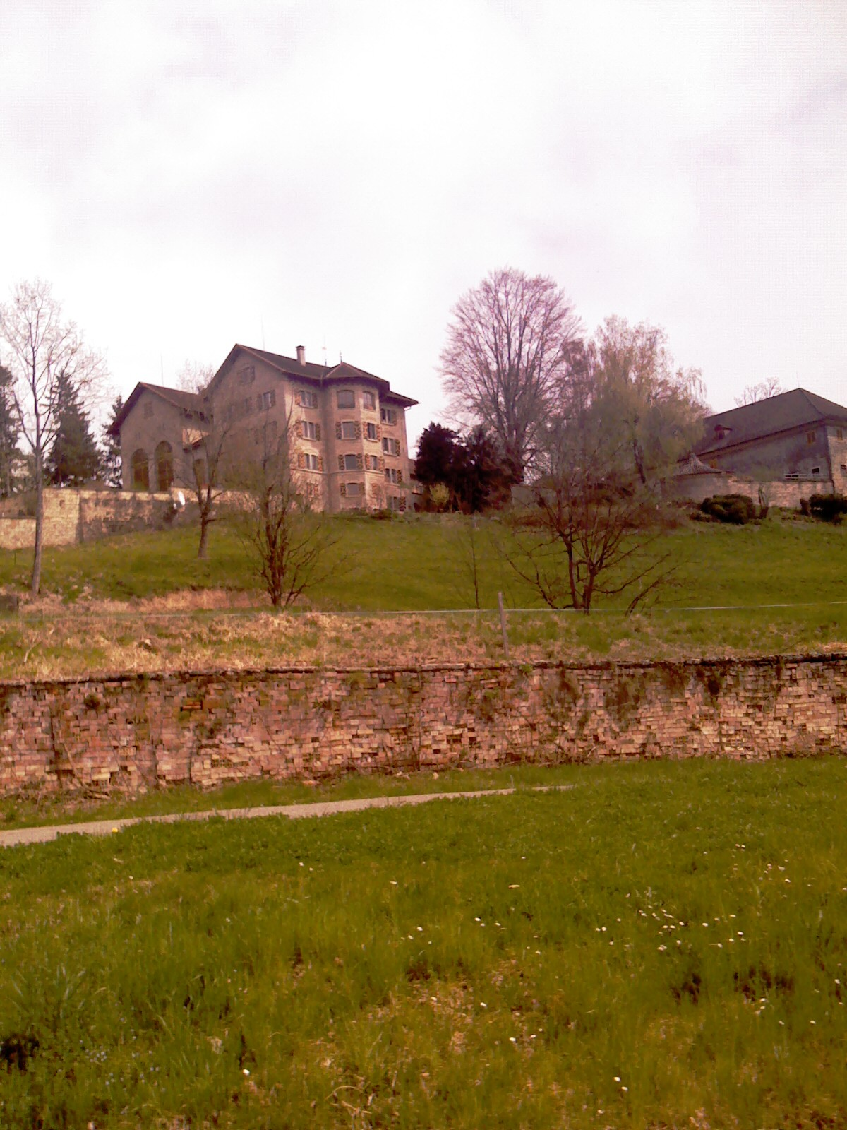 Castle of Teufen, municipality of Freienstein-Teufen, Canton Zürich, SwitzerlandEsperanto: Kastelo Teufen, komunumo Freienstein-Teufen, Kantono Zuriko, Svislando